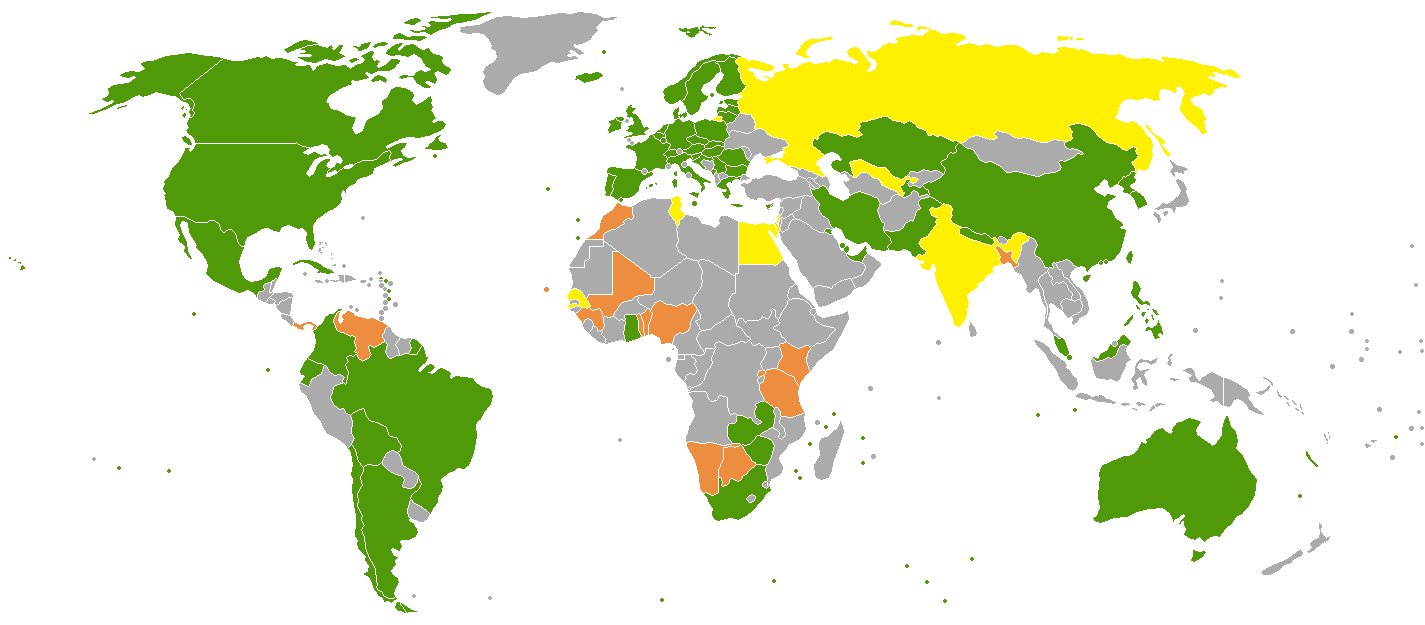 Phase out of incandescent light bulbs around the world. A full ban. A partial ban. A programme to exchange a number of light bulbs with more efficient types.